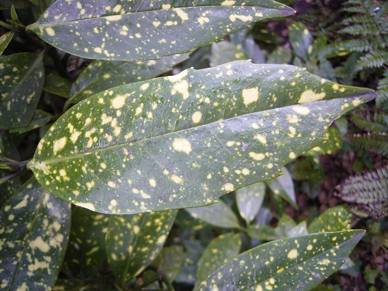 Aucuba Japonica 'Variëgata' leaf, the series 'our garden'